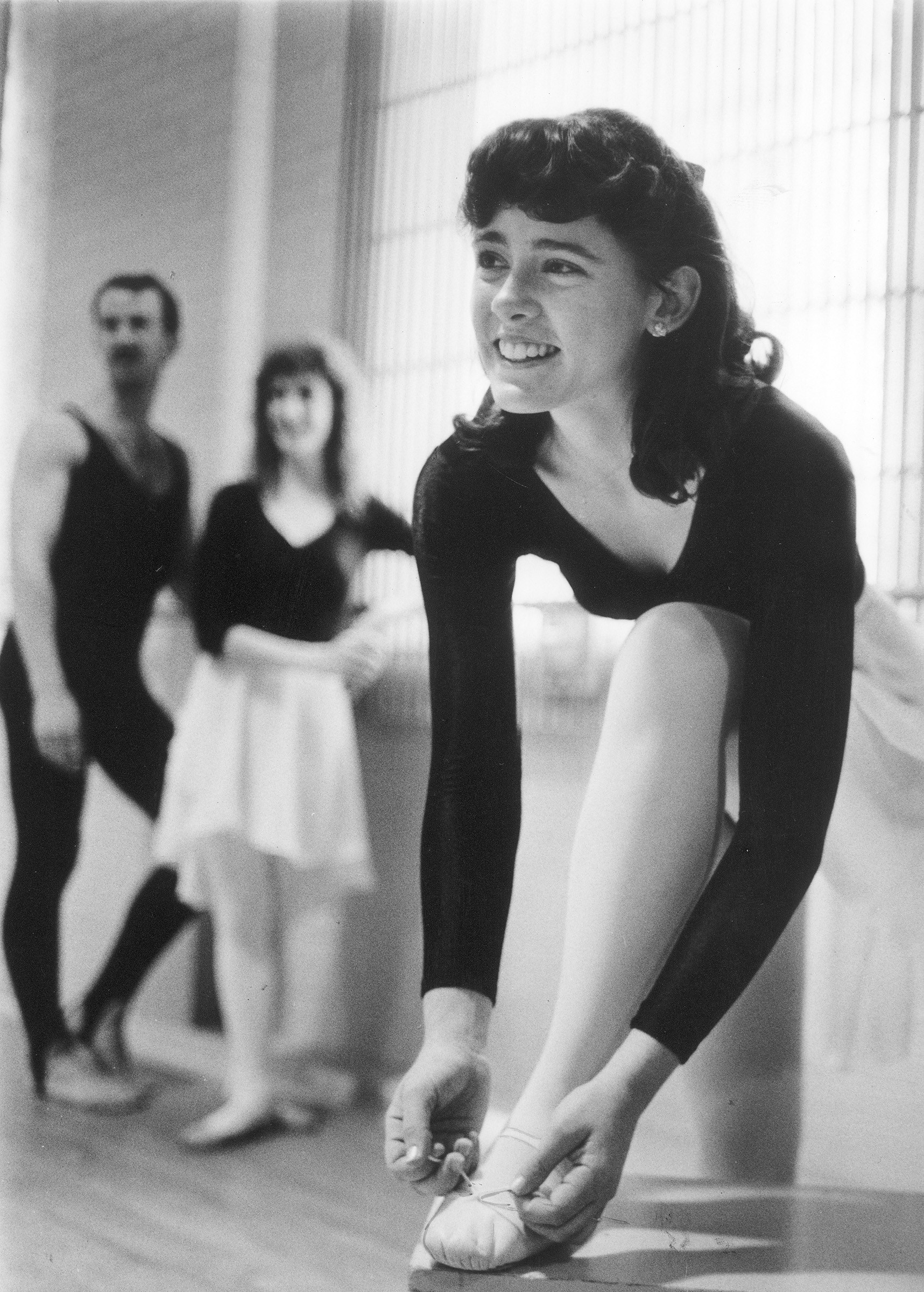 University of Texas at Arlington dance class, dancer adjusting shoe.